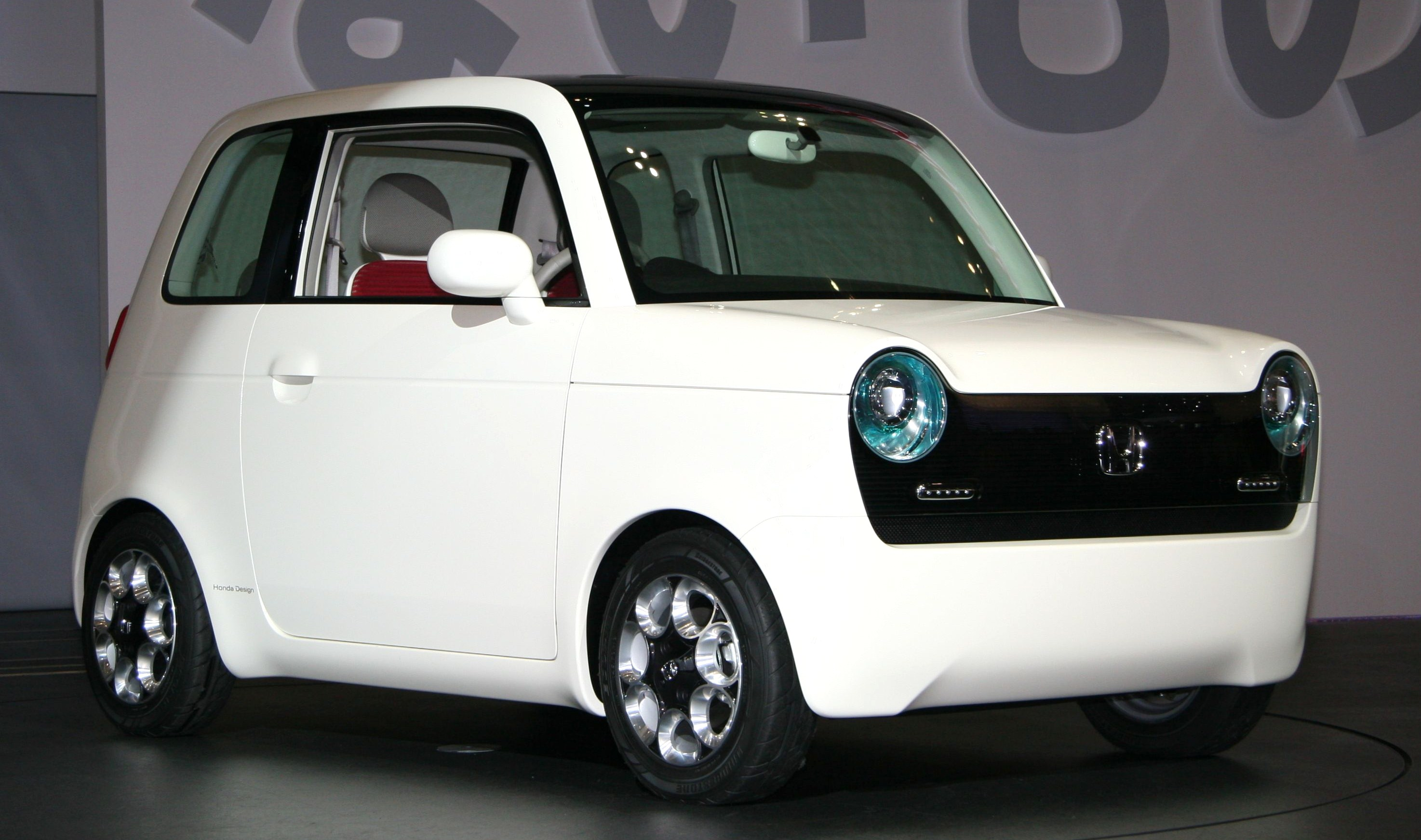 Honda EV-N